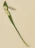 Stainton’s Natural History of the Tineina (1855–1873): Coleophora galbulipennella mined leaf of Silene otites with larval case attached